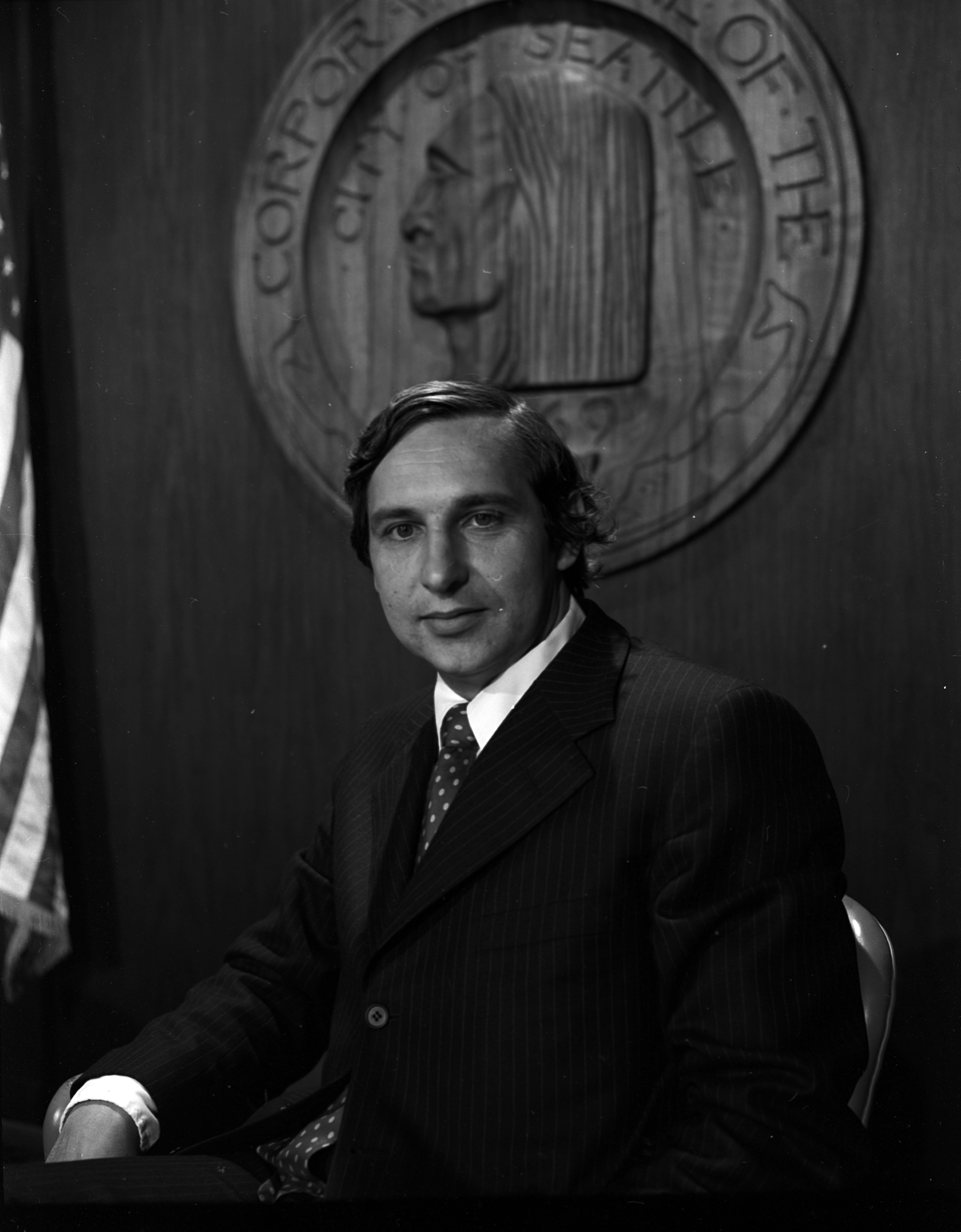 Paul Schell when he was director of the Department of Community Development. Schell later served as Seattle's mayor. Item 195216, Engineering Department Photographic Negatives (Record Series 2613-07), Seattle Municipal Archives. On Flickr, location is given as That is unlikely: that's the present day Seattle City Hall, but given this date, that building did not yet exist. This is presumably taken at the old Municipal Building.